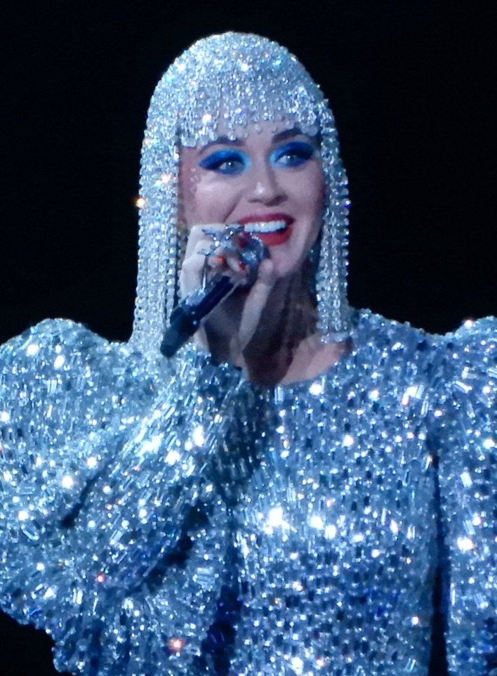 Katy Perry at Madison Square Garden